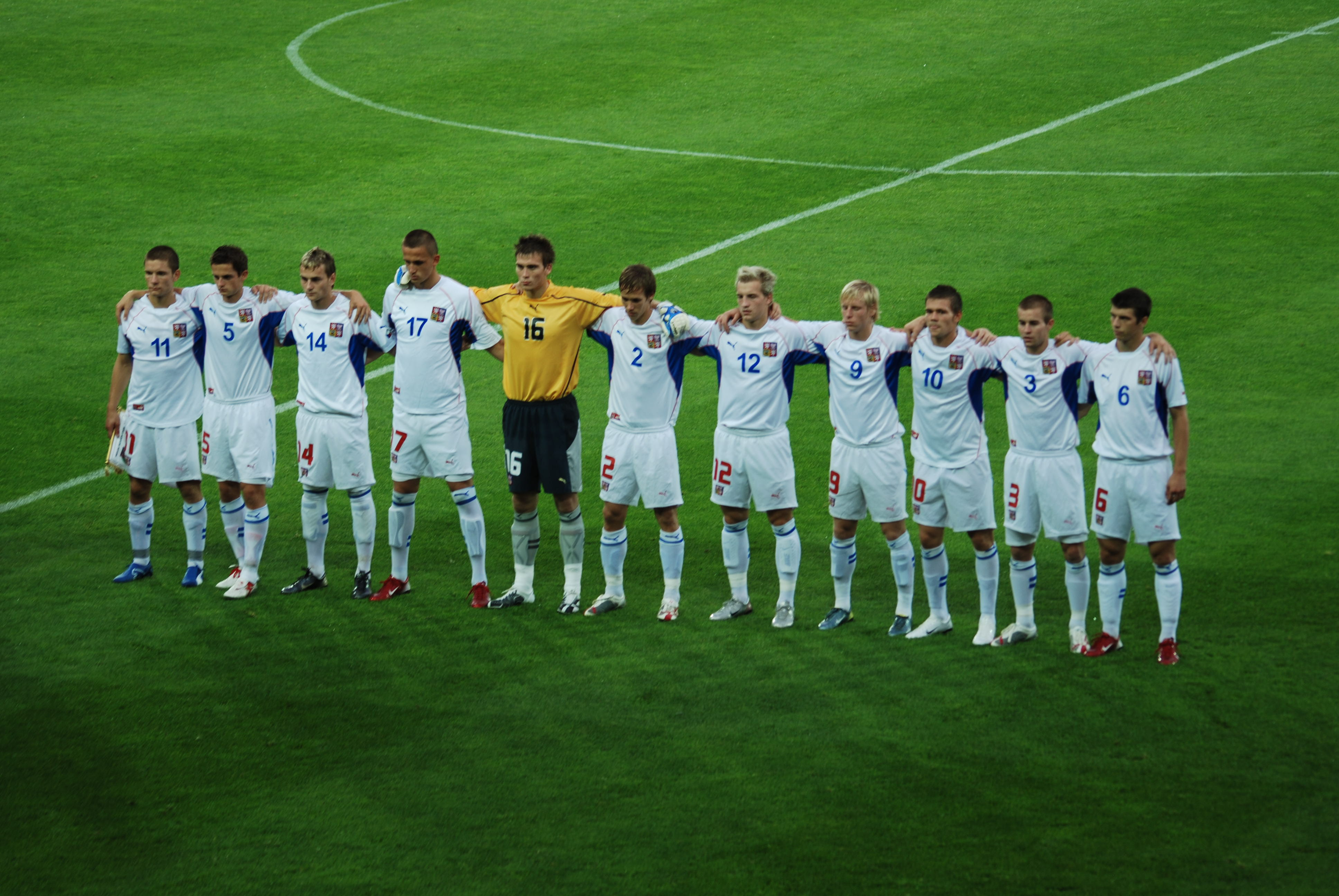 Czech national football (soccer) team under 21 years as played first match in season 2007/08 against Scotland U21